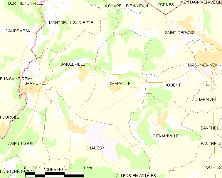 Map of French municipality Omerville